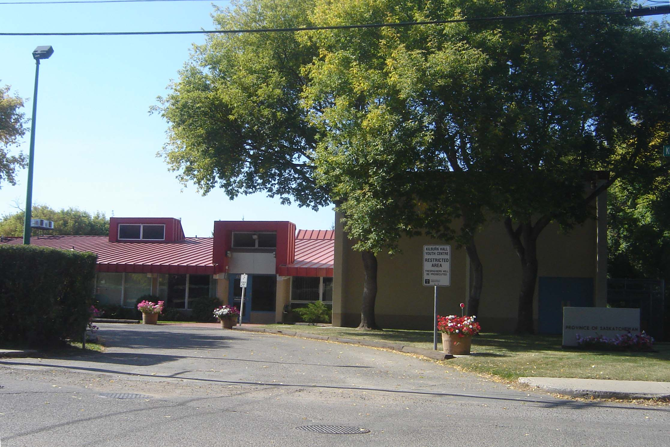 Young Offenders Custody Facilities Kilburn Hall 1302 Kilburn Avenue, Buena Vista Saskatoon